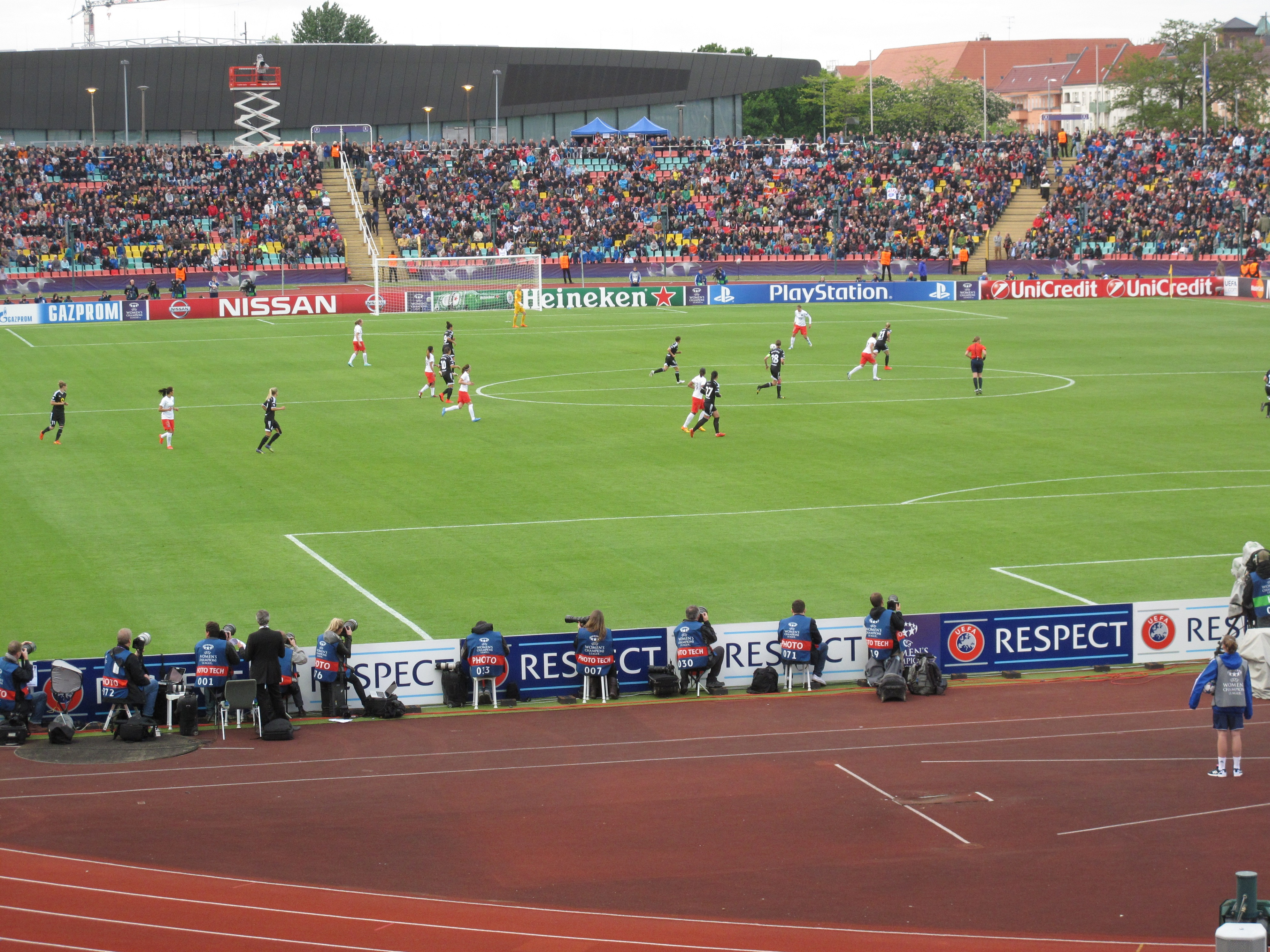 2015 UEFA Women's Champions League Final at Friedrich-Ludwig-Jahn-Sportpark in Berlin on 14 May 2015. 1. FFC Frankfurt won the match against Paris Saint-Germain 2–1.